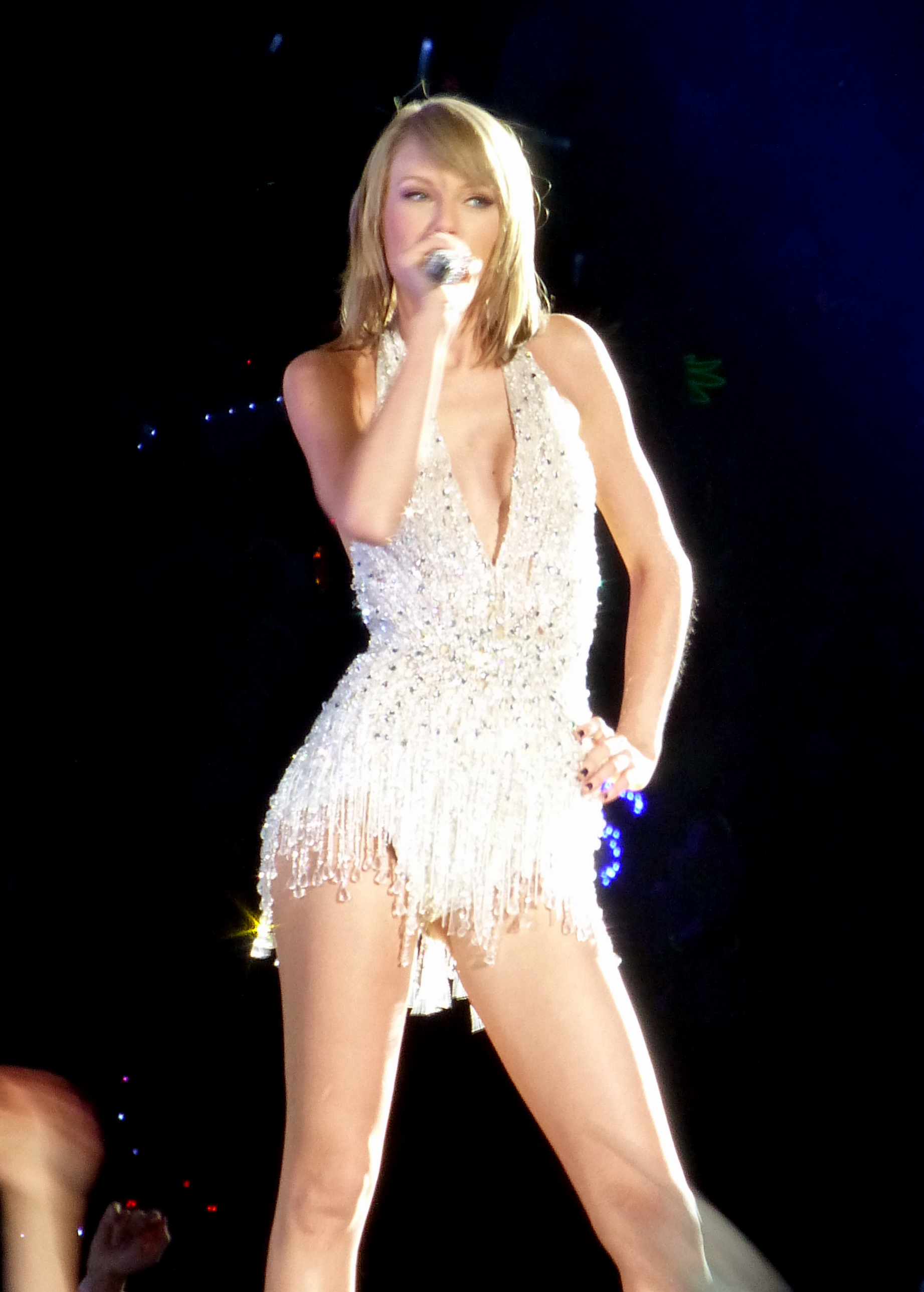 Taylor Swift 1989 Tour at Ford Field in Detroit, 5/30/15